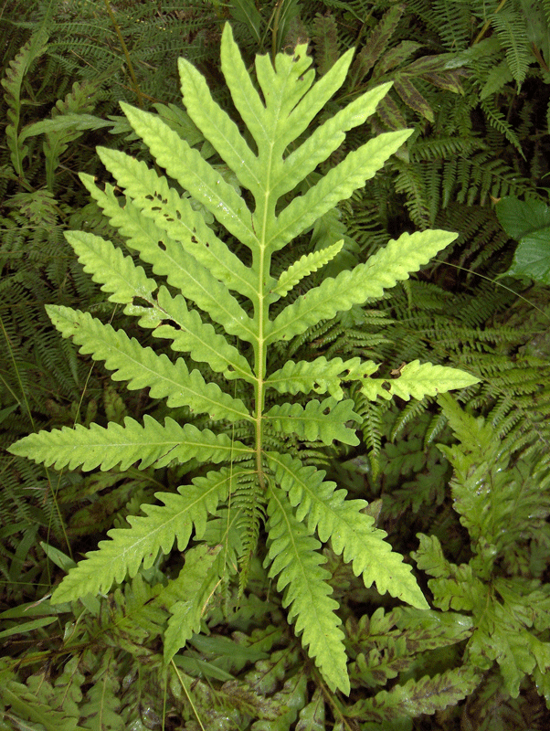 Sensitive-Fern-2